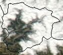 Cropped satellite image of Andorra in March, showing extensive snow cover.